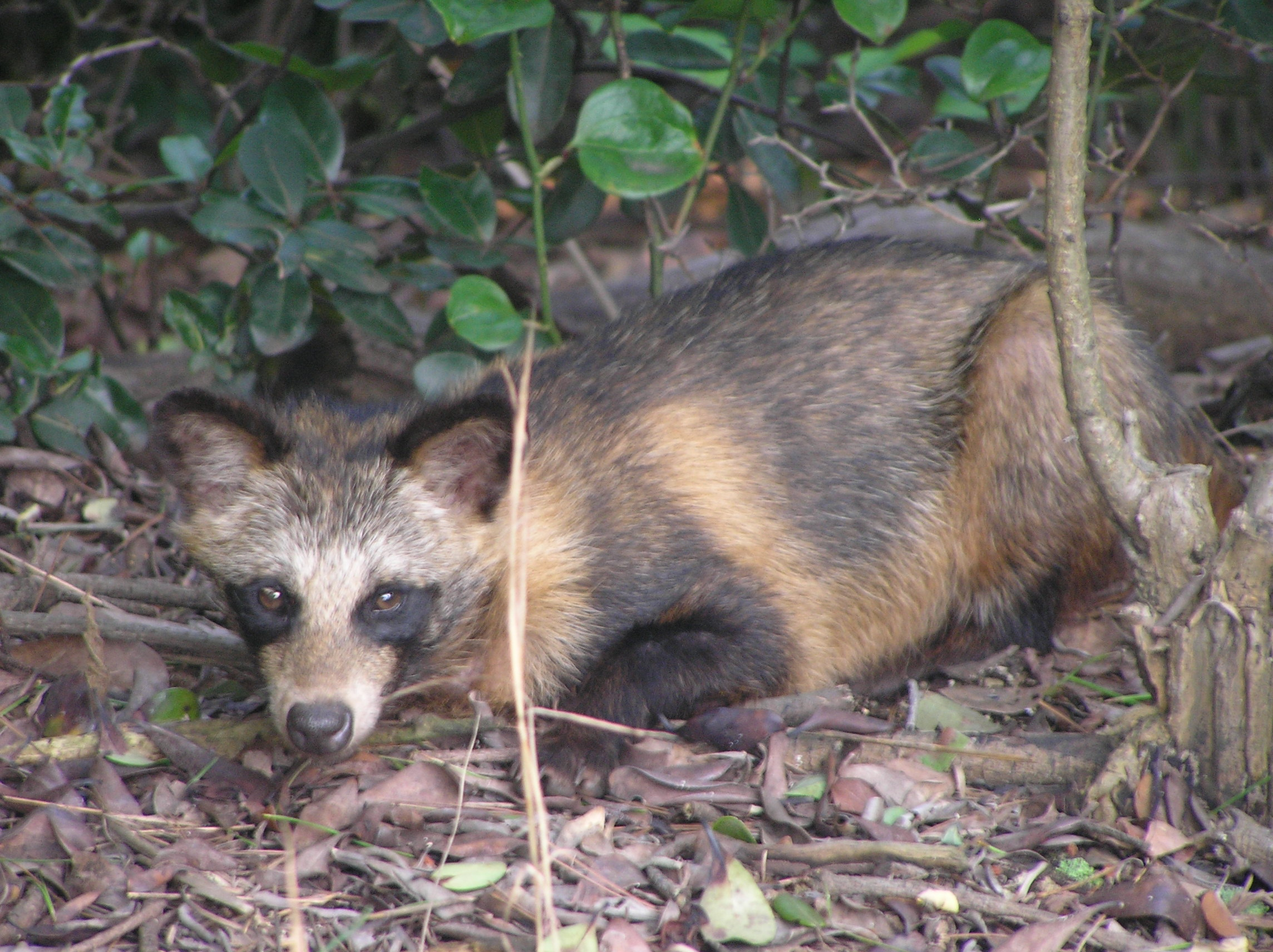 A raccoon dog pictured in Shiraishijima, Japan.